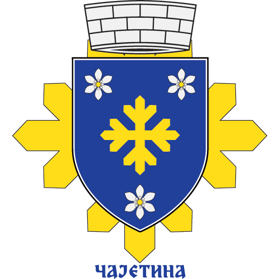 Srednji grb Čajetine